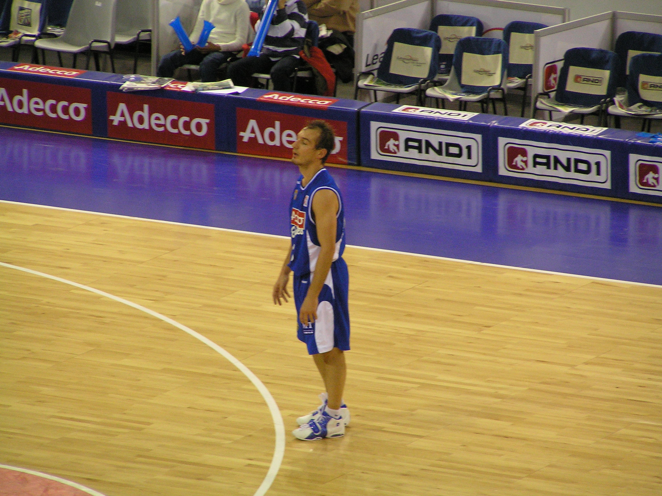 Nacho Azofra after trying a three-pointer shot in a Estudiantes-Pamesa match Author: Mr. Tickle Date: 19th November, 2005